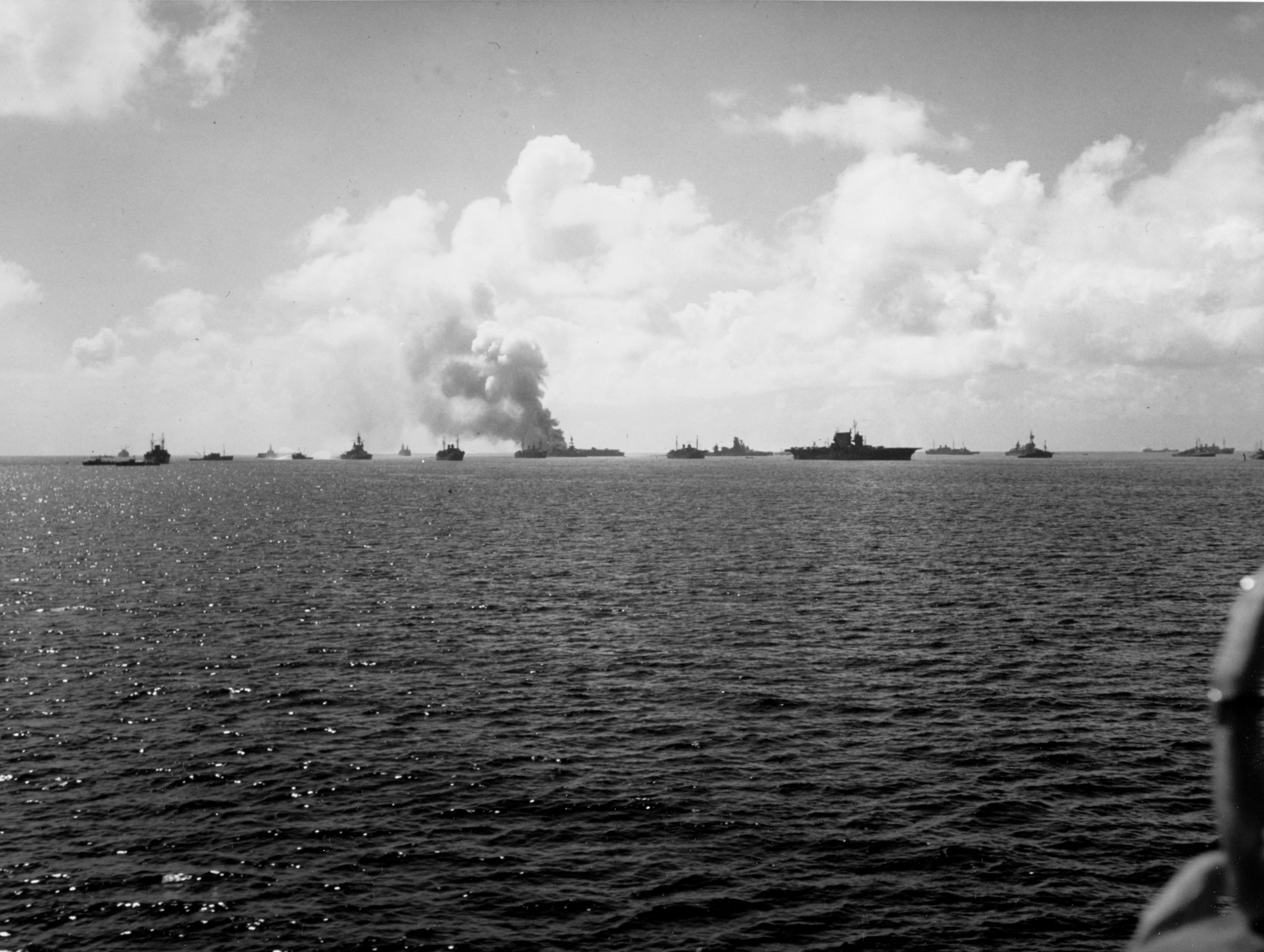 Bikini Atoll Atomic Bomb Tests, 1946: View of the target fleet immediately after the "Able" aerial burst on 1 July 1946. The aircraft carrier USS Saratoga (CV-3) is in the center with USS Independence (CVL-22) burning at left-center. The ex-Japanese battleship Nagato is between them. Note the ship at left next to the battleship USS Pennsylvania (BB-38) trying to wash down the radioactivity with (contaminated) water from the lagoon.